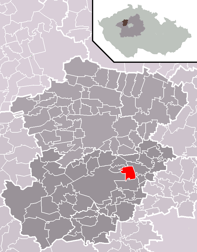 Location of Stehelčeves municipality within Kladno District and administrative area of Kladno as a Municipality with Extended Competence.